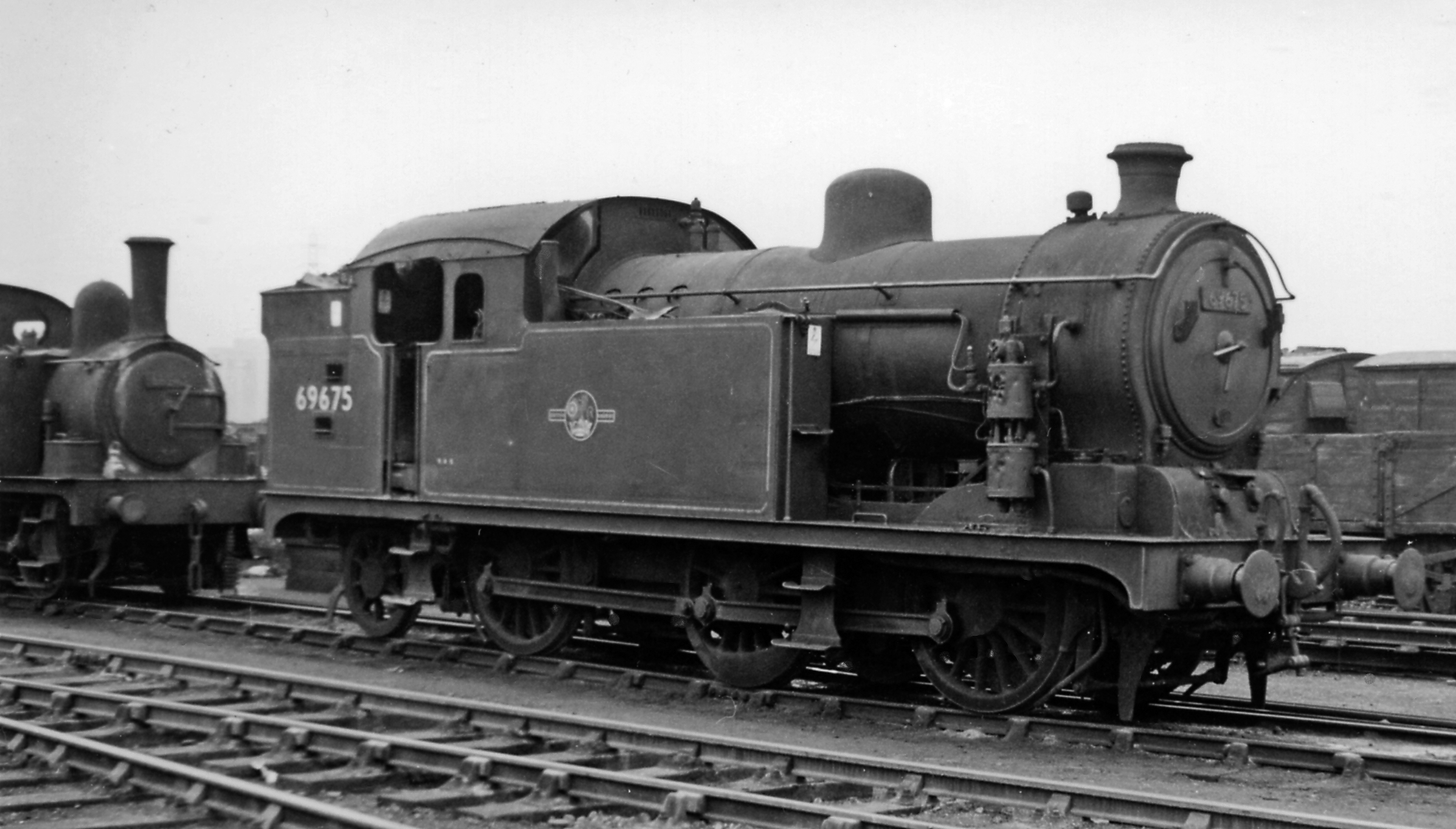 LNER Gresley N7/3 0-6-2T at Stratford Locomotive Depot. This is one of the 134 celebrated class N7 0-6-2Ts, designed for the GER in 1915 by Hill and perpetuated after the Grouping by Gresley, nearly all of which were based at Stratford and its sub-Sheds for working the intensive suburban services from Liverpool Street. It is N7/3 No. 69675, built 11/27 (with Belpaire firebox, subsequently converted to round-top) as No. 2635 (No. 9675 from 1946) and survived until 6/61 - not long after this photograph.